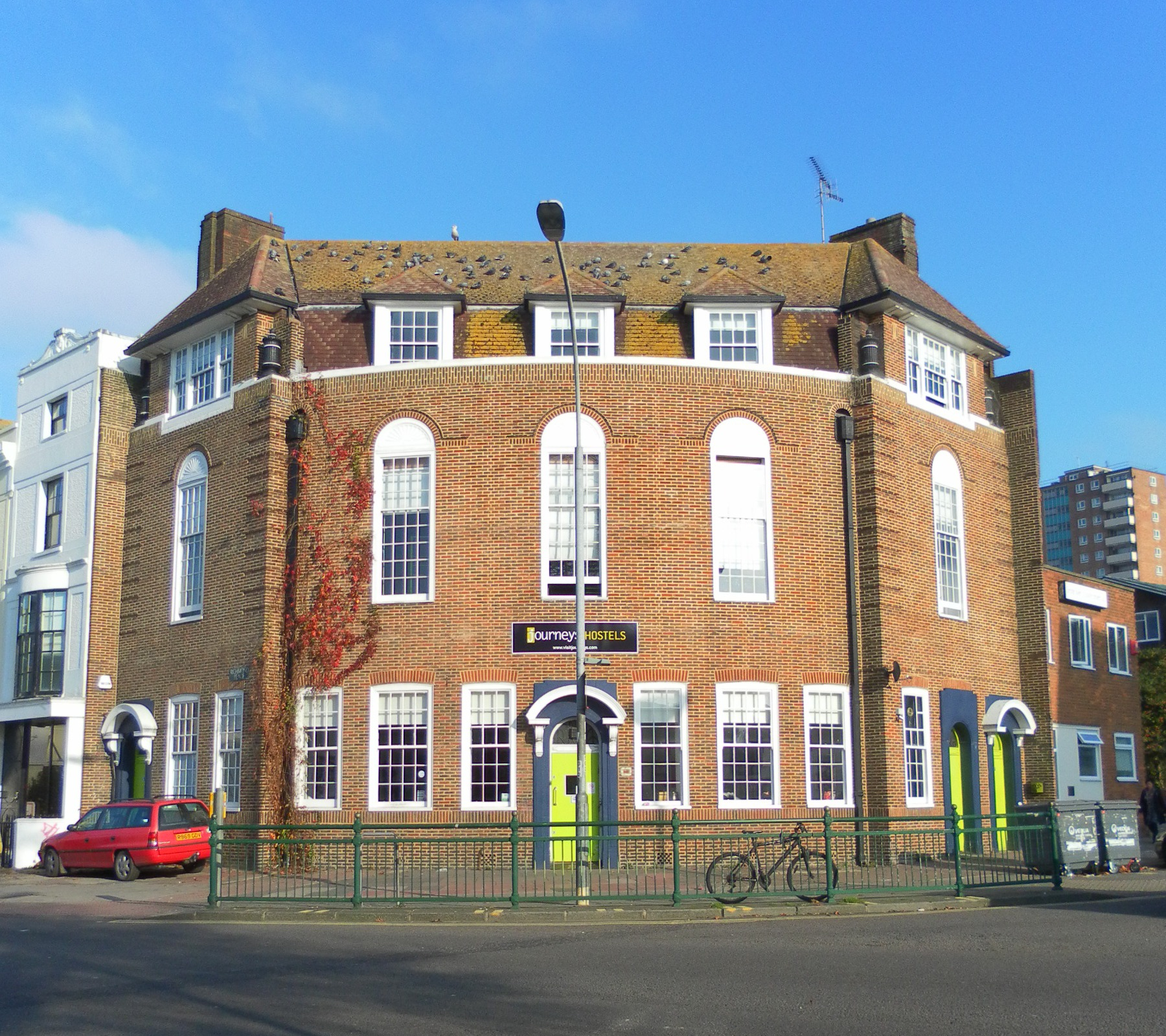 Former Richmond Hotel, Richmond Parade, City of Brighton and Hove, England. Designed in 1931–34 by John Leopold Denman as a hotel/inn for the Kemp Town Brewery; later incarnations included the Pressure Point nightclub, and at the time of the photograph it was a backpackers' hostel.